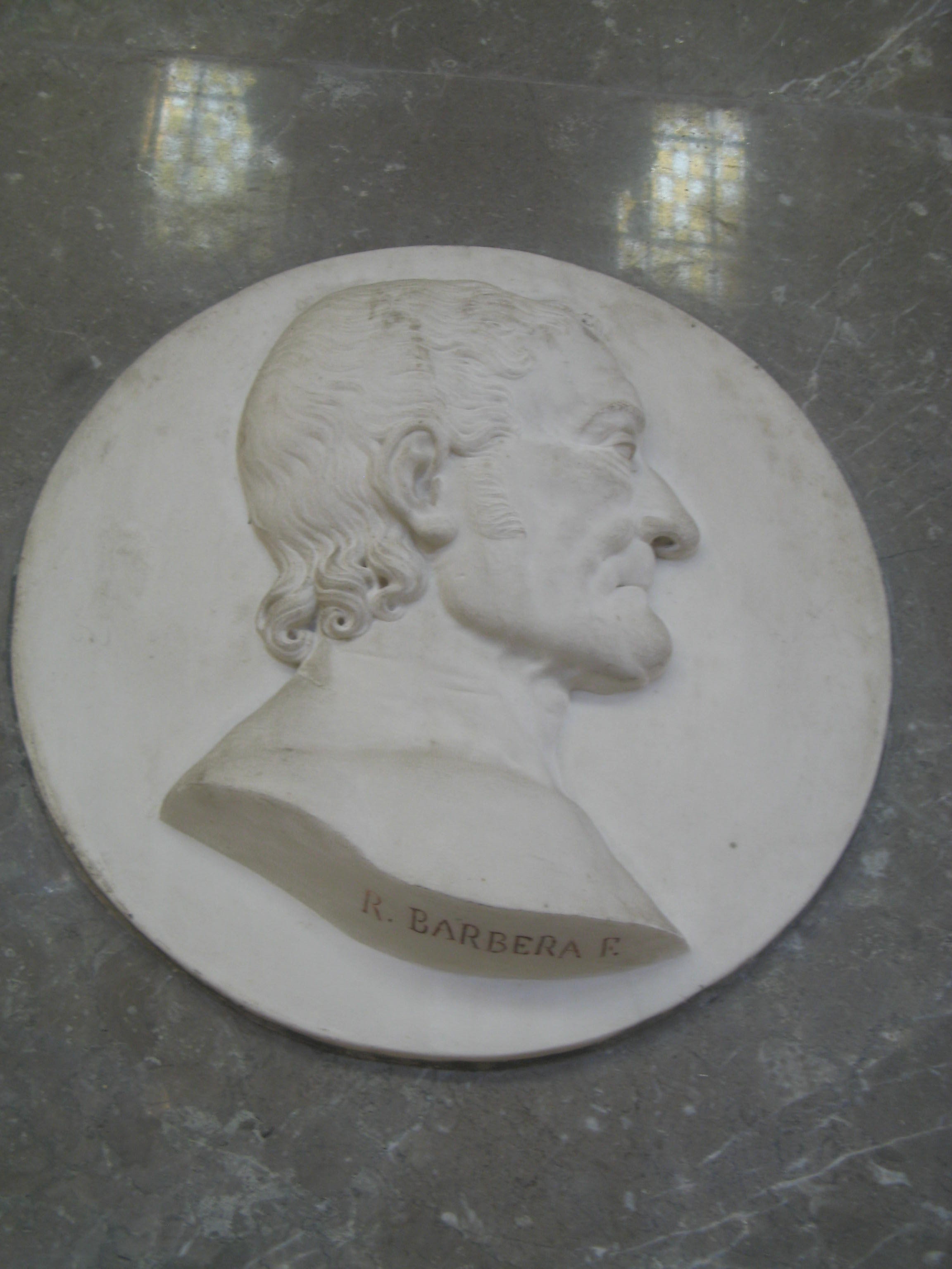 Chiesa di San Domenico_(Palermo), Portait of Giuseppe Velasco (Palermo 1750 - 1827).